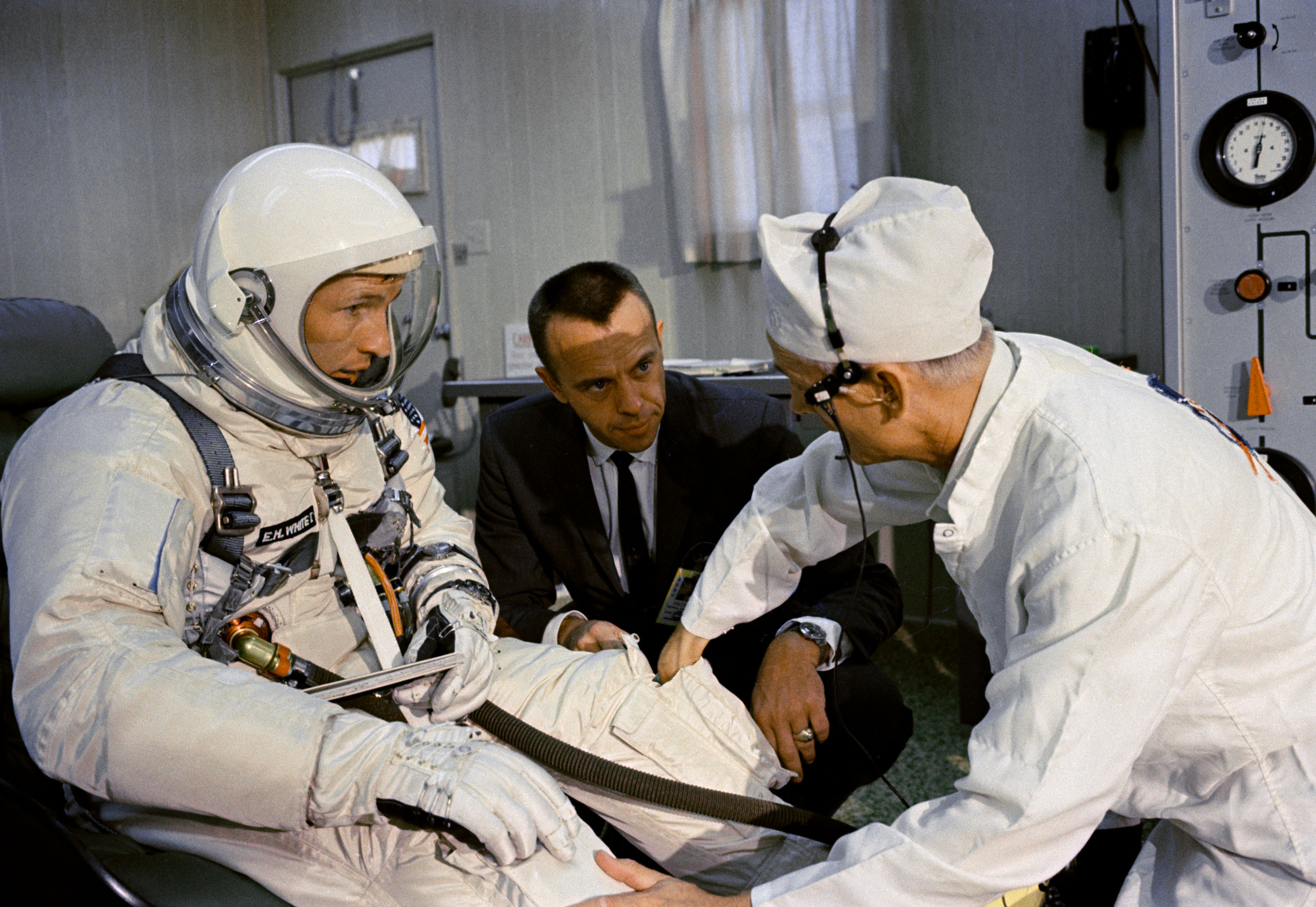 S65-29646 (3 June 1965) --- Astronaut Edward H. White II (left), Gemini-4 pilot, gets help with the donning of his spacesuit from a suit technician before the Gemini-4 spaceflight. Astronaut Alan Shepard is at center. The NASA Headquarter alternative photo number is 65-H-295.